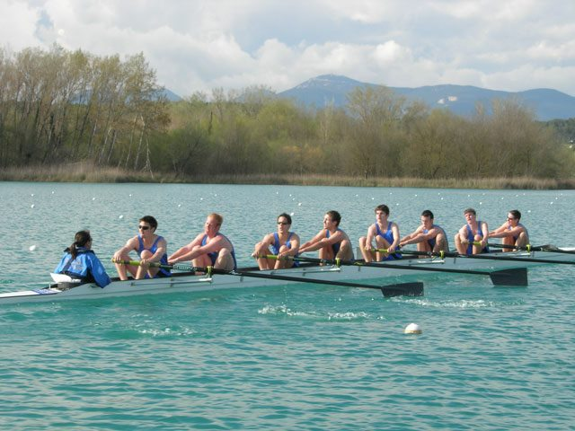 UEABC men's training camp, Baynoles, Spain, 2005